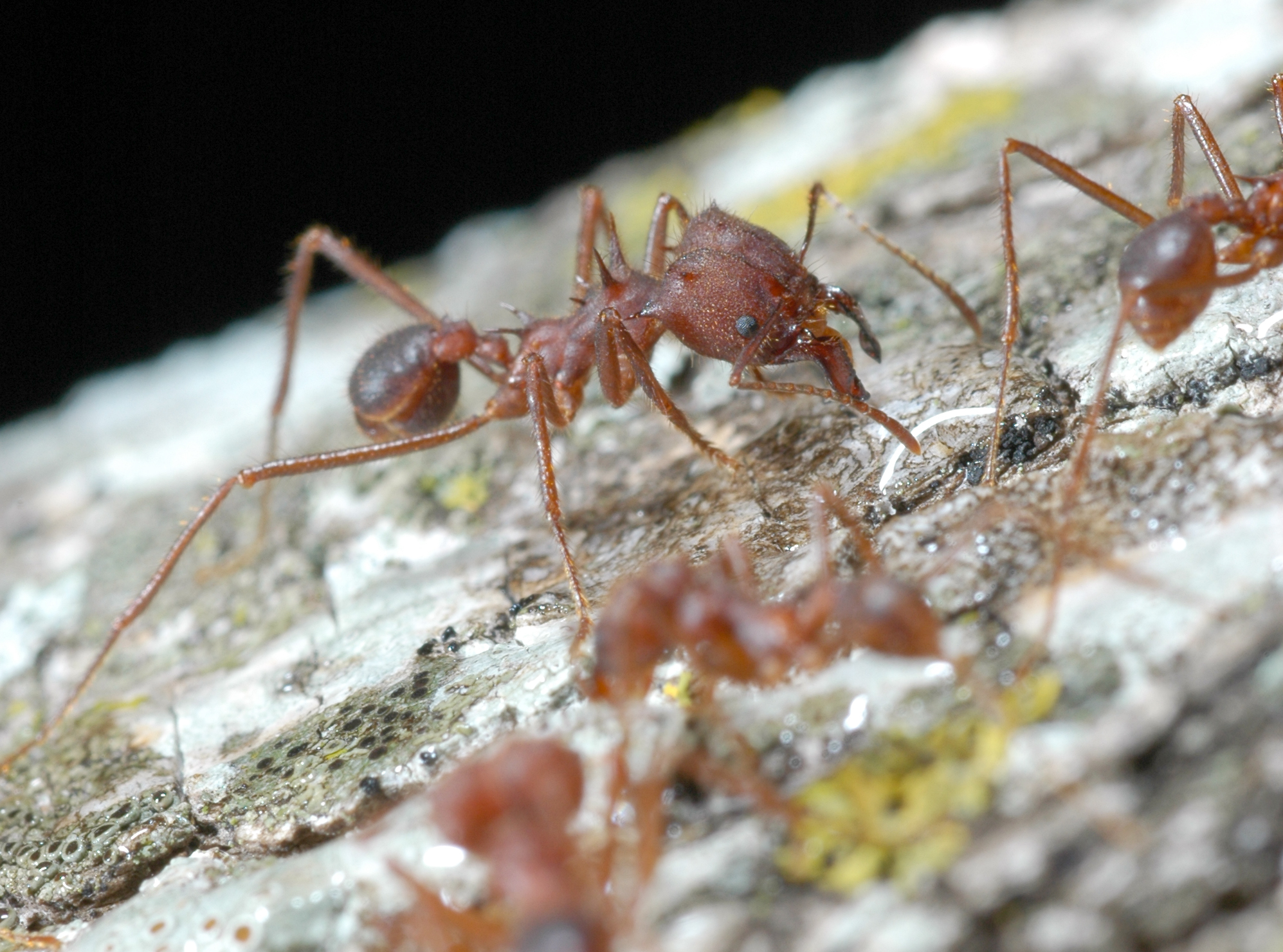 These guys were busy stripping the leaves from a tree at the first campsite in San Pedro Campground. They work at night and I tried to follow their trail to the mound but lost it in the thick brush after about 30 yards.